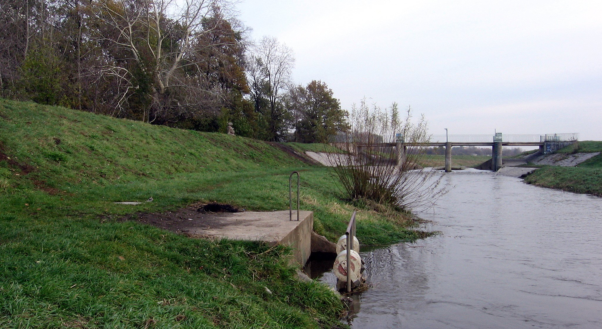 The backwater valve on the estuary of Grabiszynka flux to Ślęza River in Wrocław. In background - Oporowska foot-bridge over Ślęza River